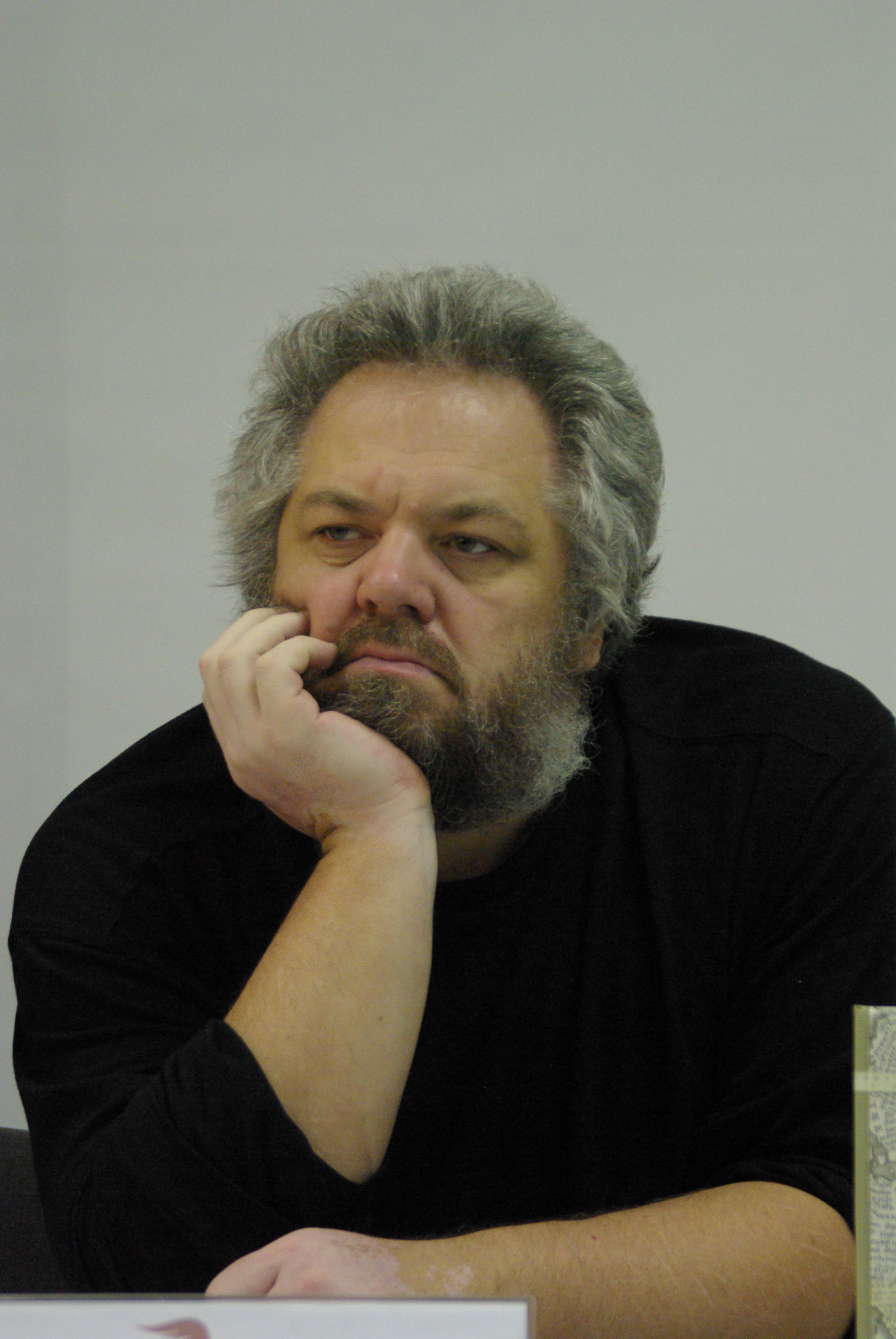 Russian writer Mikhail Butov at the 11 Moscow International Fair of Intelectual Books, Non-Fiction 2009